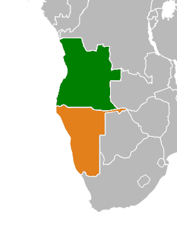 Map highlighting Angola in green and Namibia in orange.